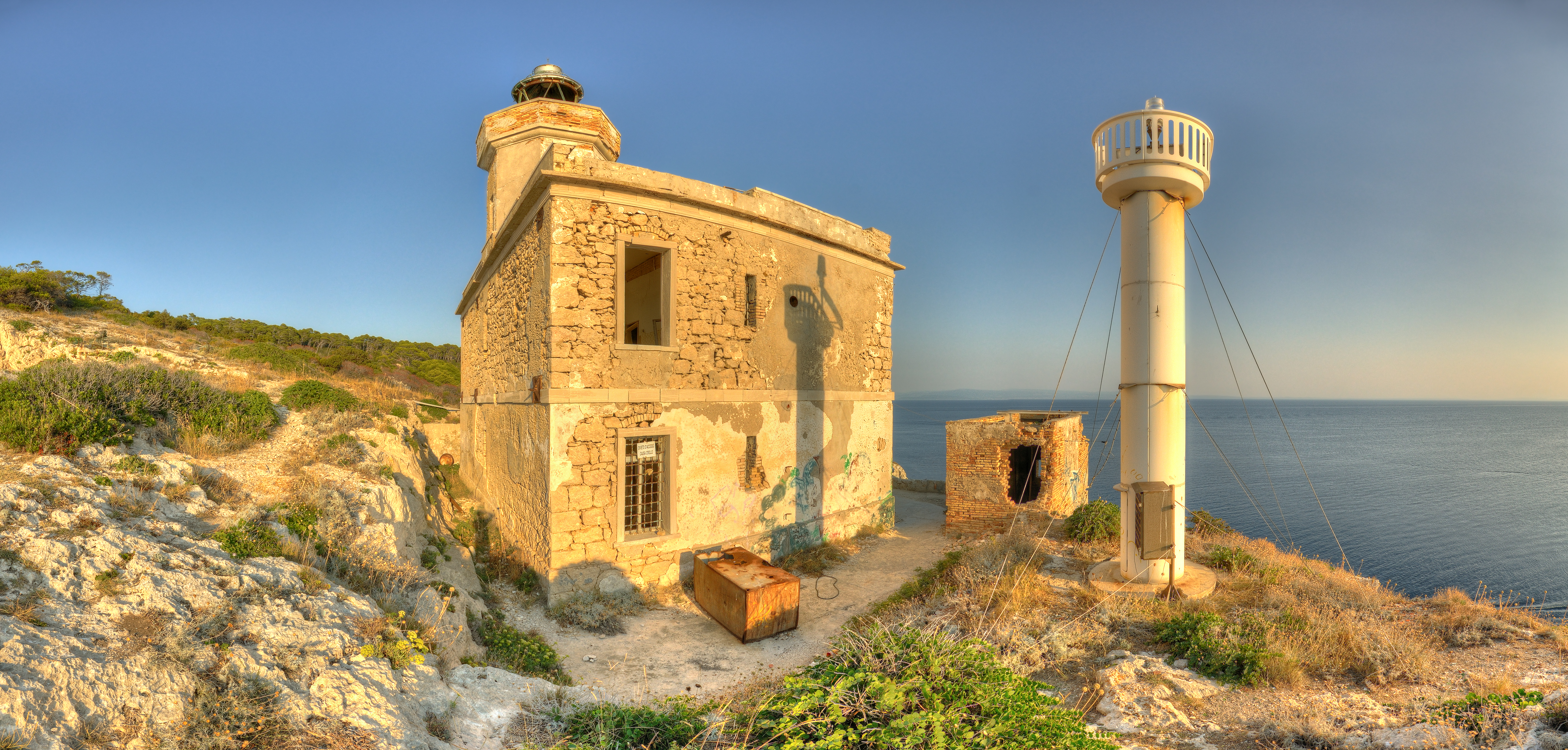 San Domino Island's Lighthouse - Tremiti, Foggia, Italy